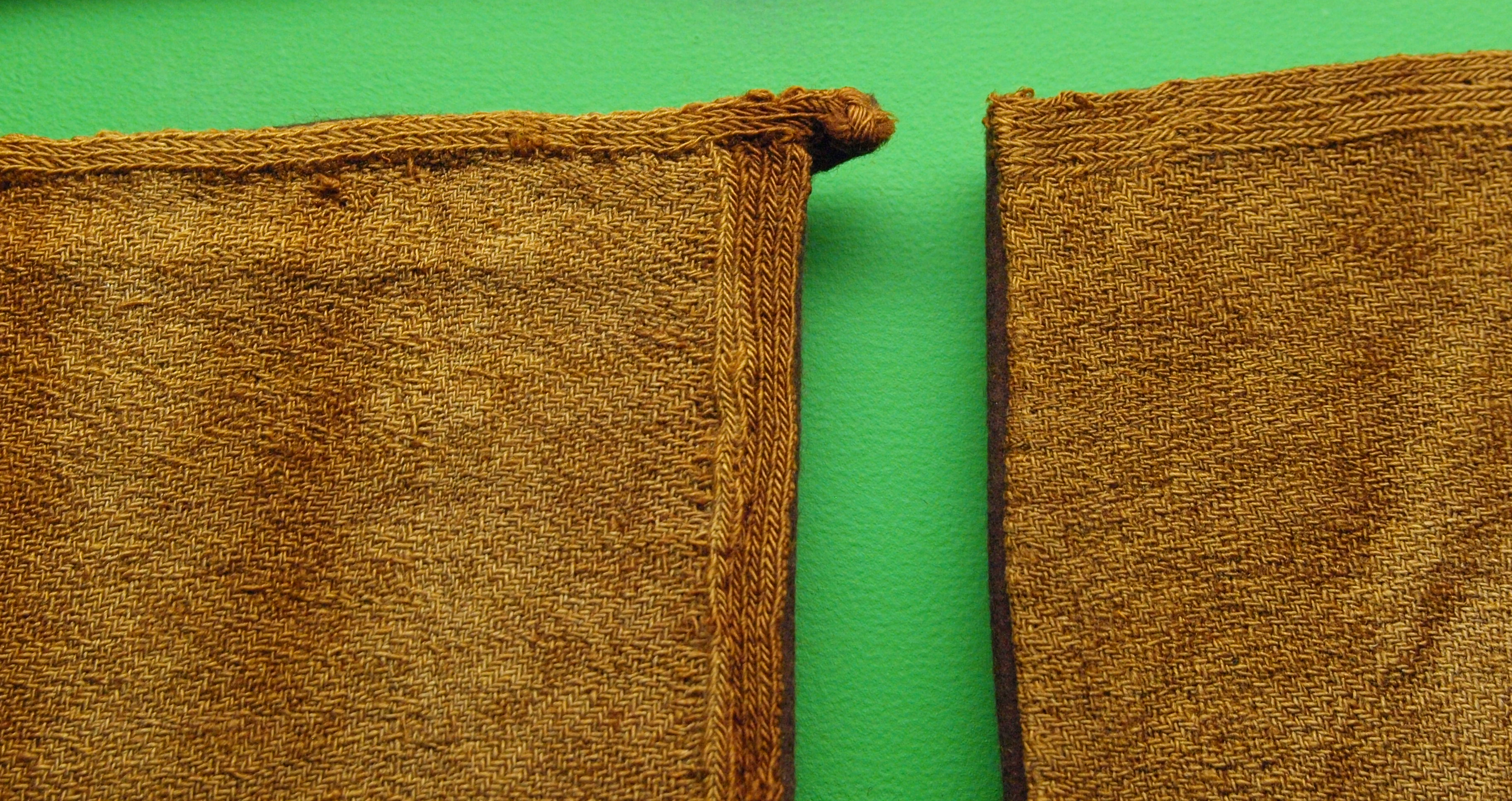 Details of tablet woven borders on fabrics of bog body Damendorf Man's trousers, dated around 2nd to 4th century, found near Damendorf, Rendsburg Eckerförde, Germany. On display at Archäologisches Landesmuseum Schloss Gottorf in Schleswig.